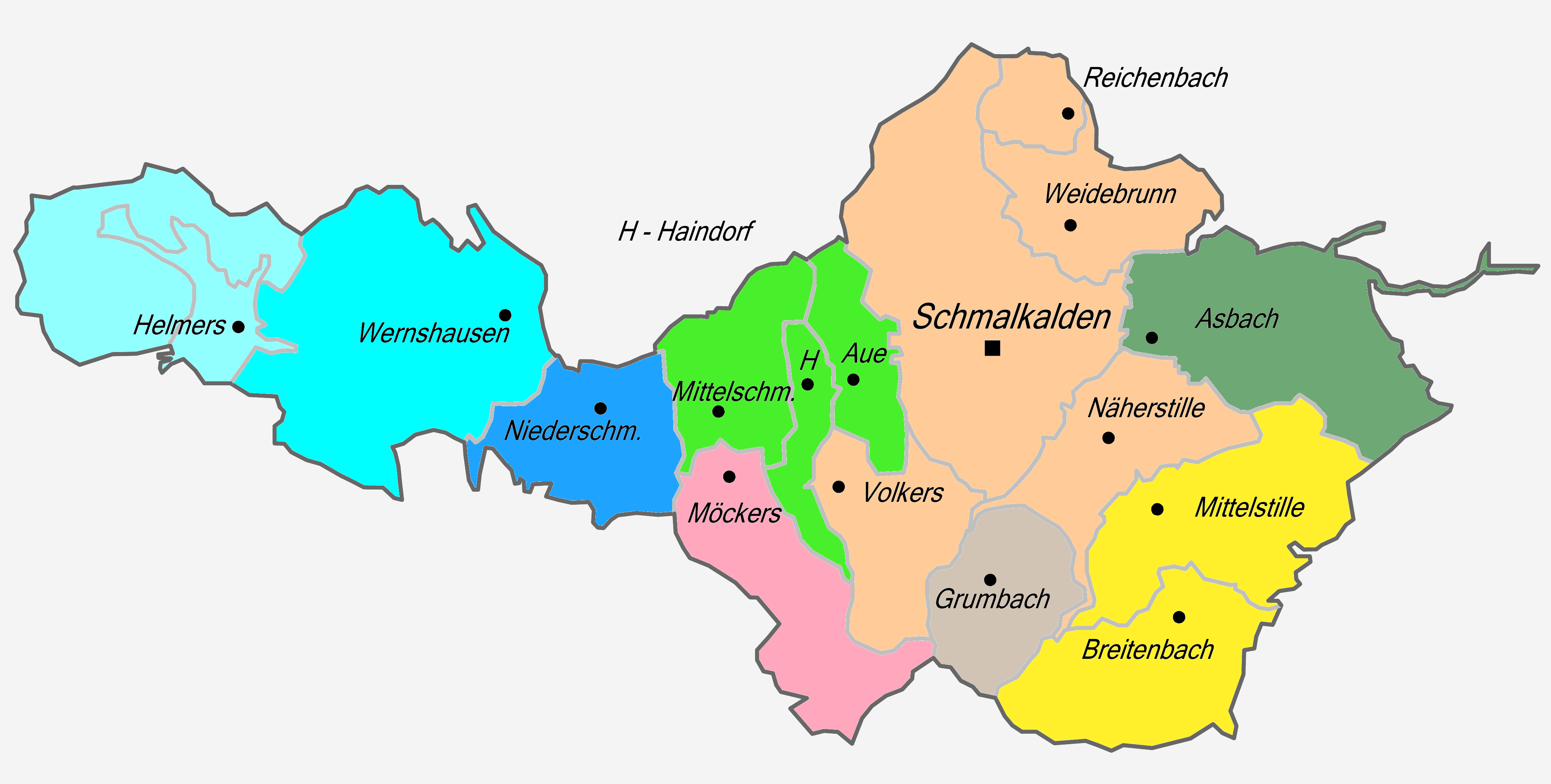 District-Maps of Schmalkalden